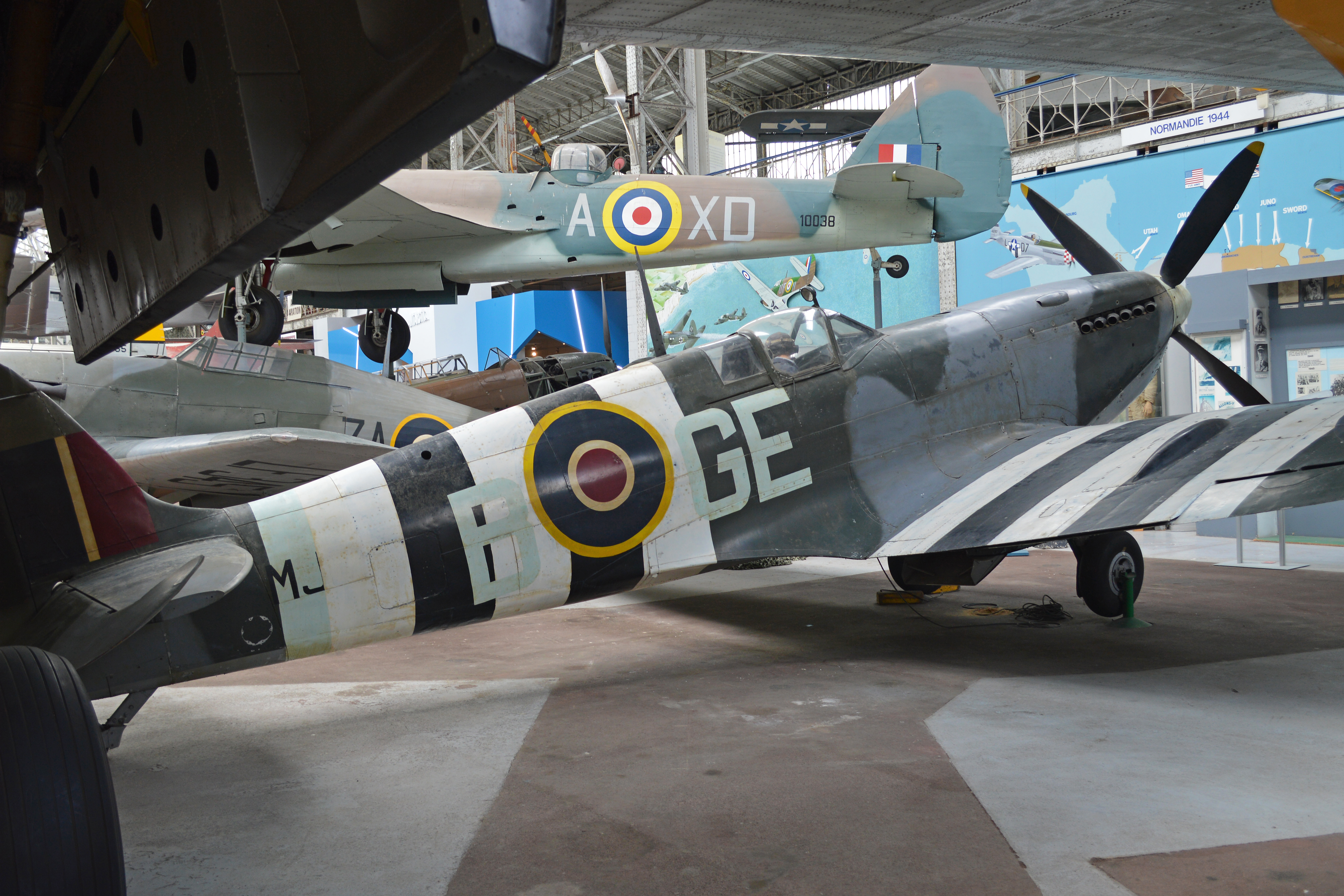 c/n CBAF.IX1301. British military serial MJ783. Joined the Belgian Air Force in 1948 as ‘SM15’. Retired in 1951 and became part of the national collection. Remains on display at what is known as the Brussels Air Museum, although it is actually the Air and Space Section of the Royal Museum of the Armed Forces and Military History. Brussels, Belgium. 26th June 2016